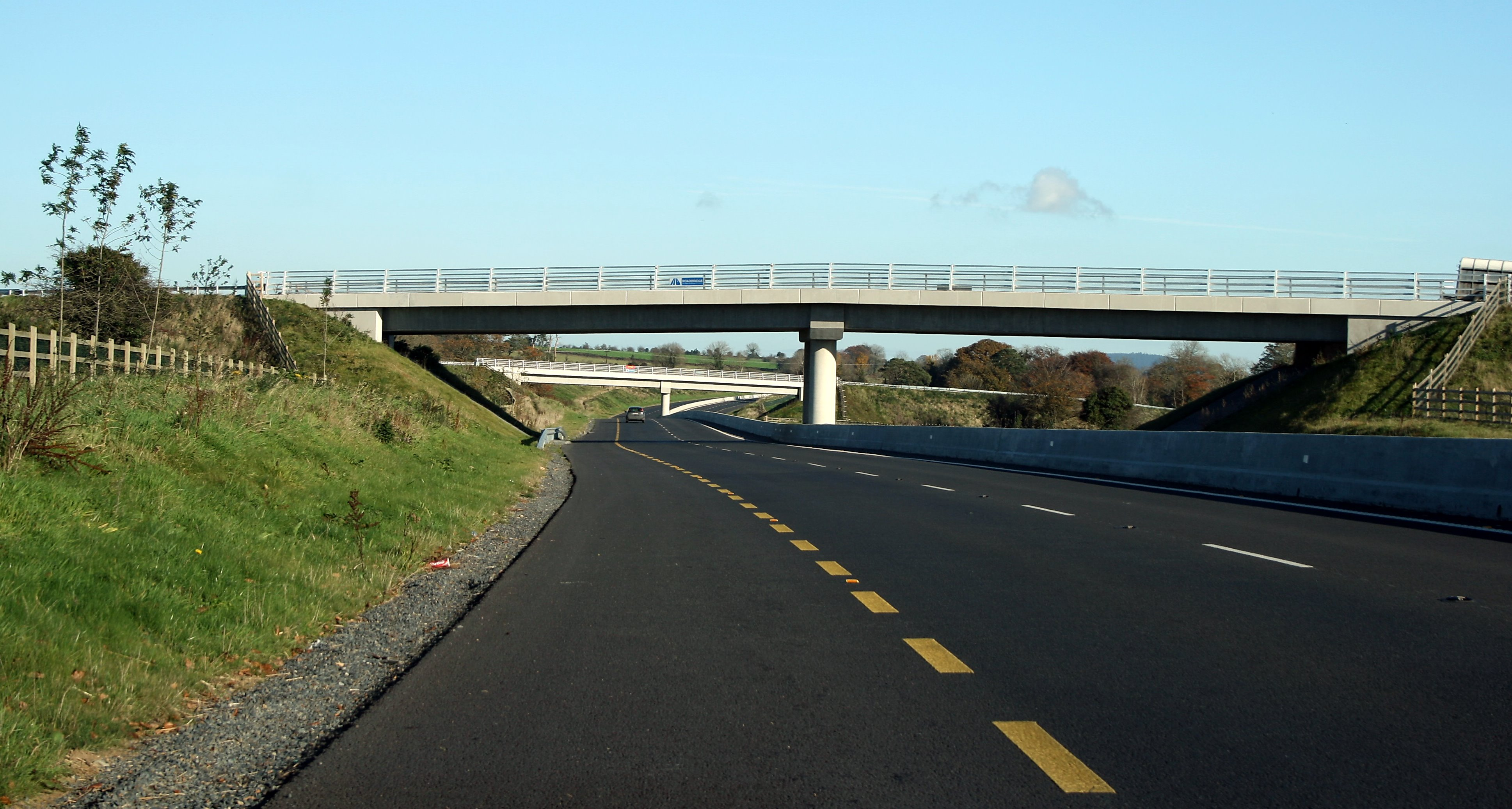 E01: the N11 Gorey Bypass in County Wexford, Ireland